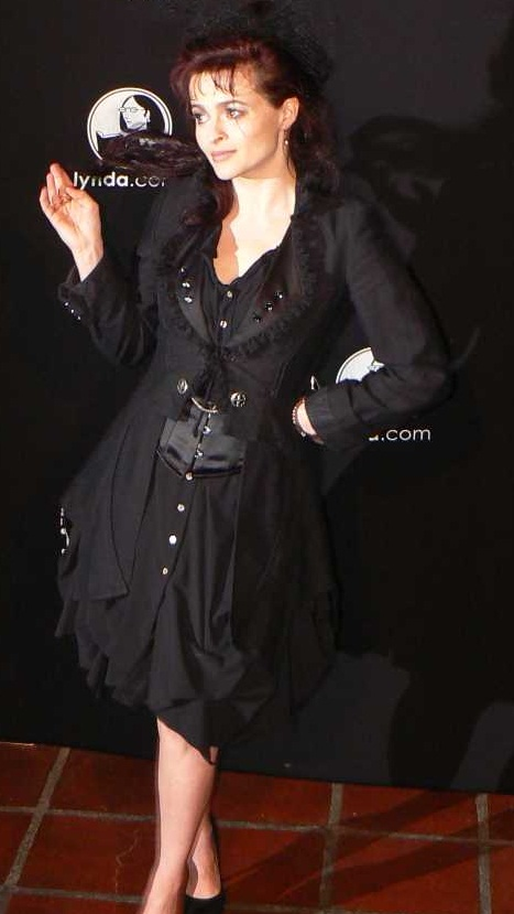 Actress Helena Bonham Carter at 26th Santa Barbara International Film Festival in 2011